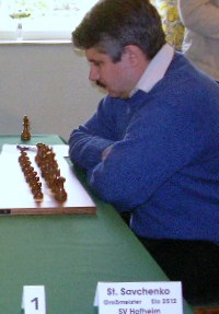 Stanislav Savchenko, German Chess Bundesliga 2004/2005, 9th April 2005 at Porz.